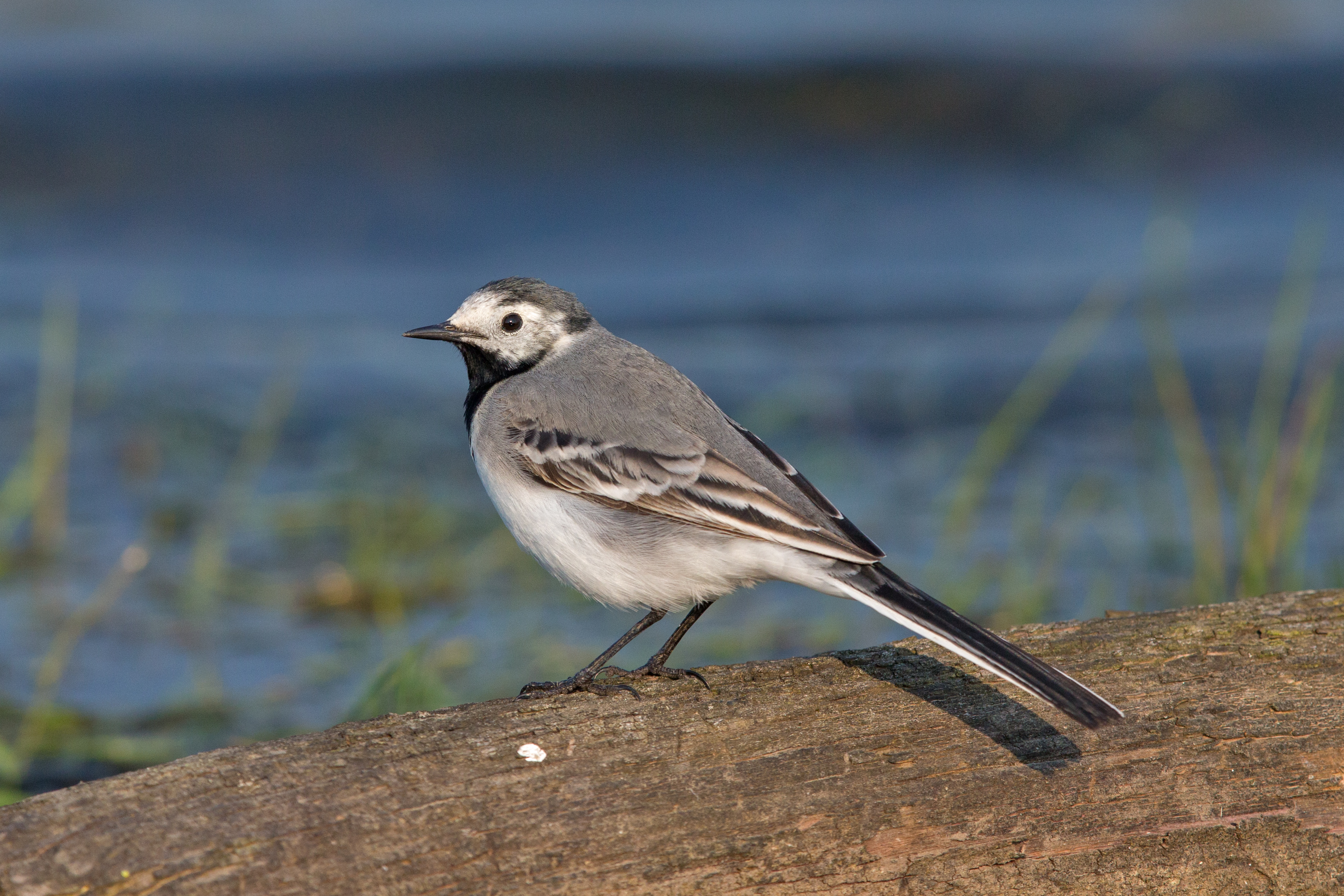 White wagtail, female, first summer